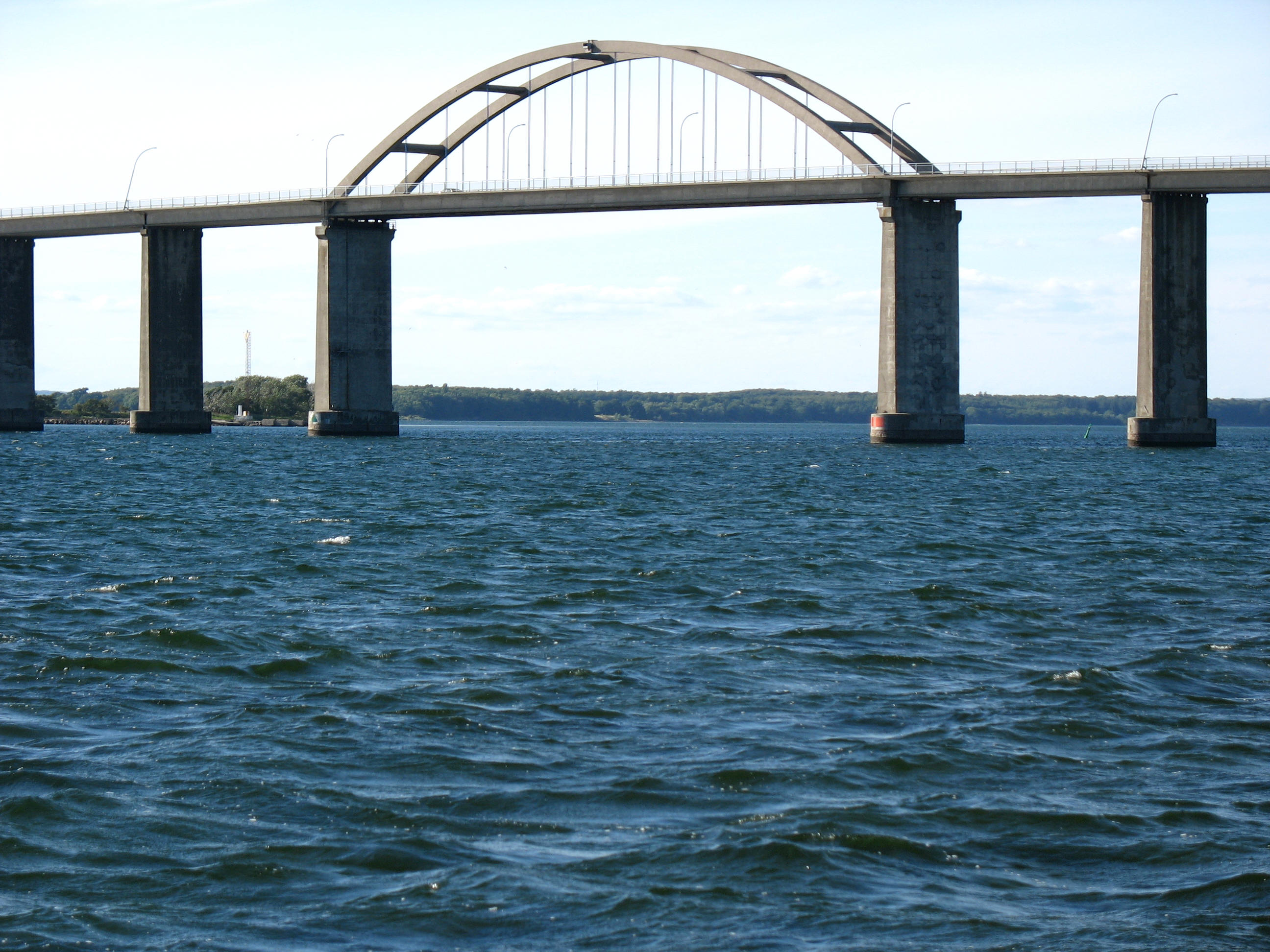 The bridge "Langelandsbroen" near the Danish town "Rudkøbing" (on the island Langeland).